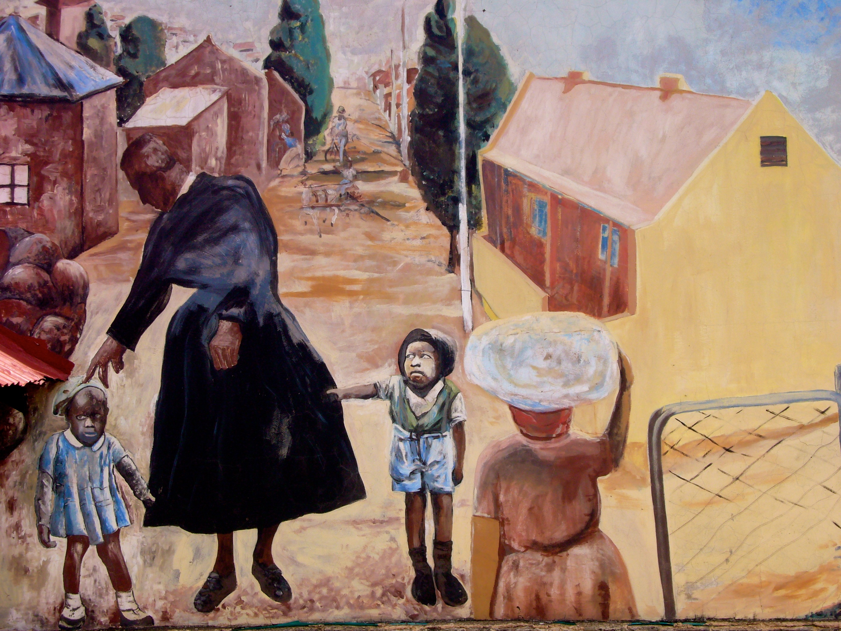 Mural on the North Eastern side of the Christ the King Anglican Church in Sophiatown South Africa